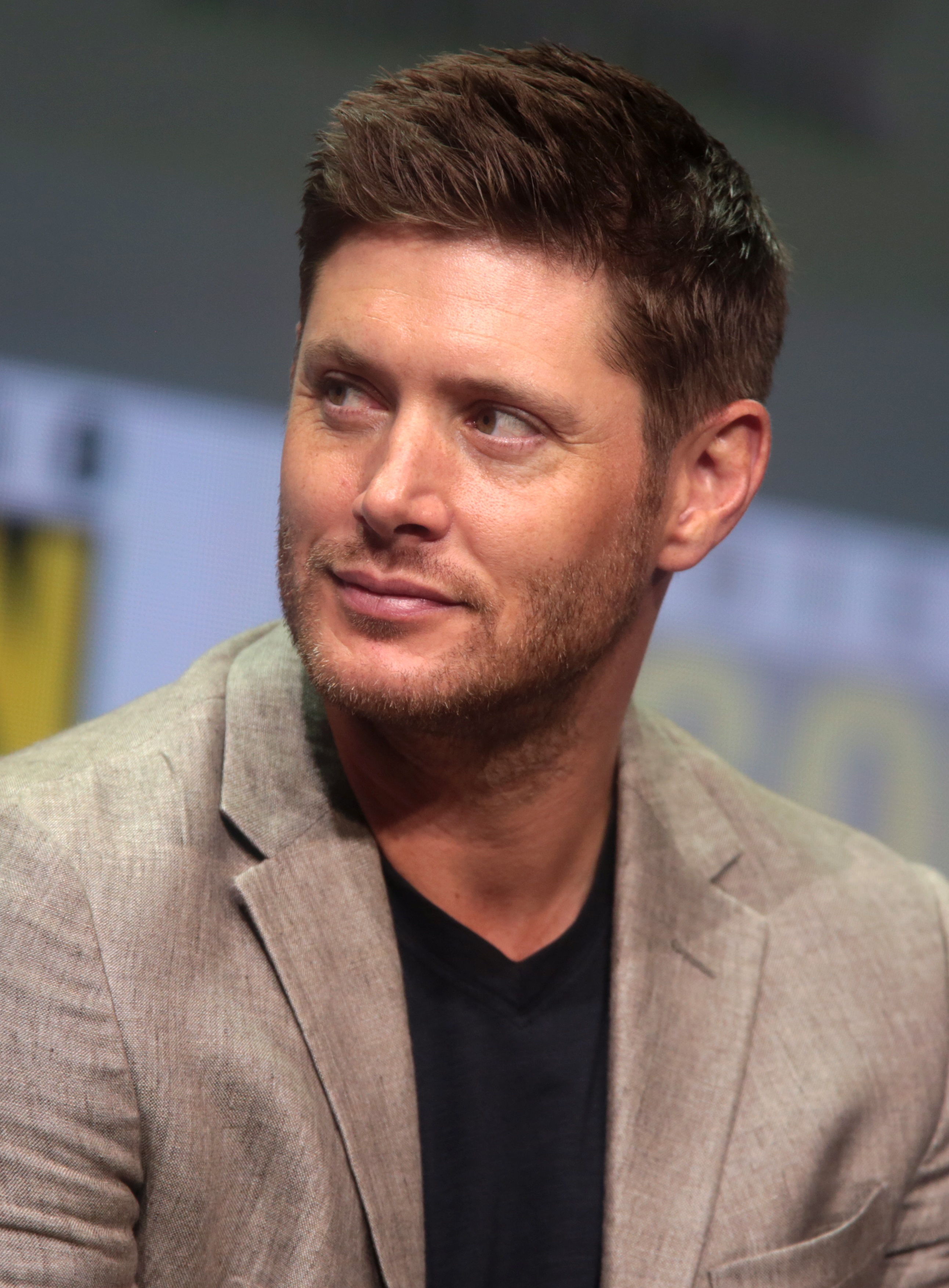 Jensen Ackles speaking at the 2017 San Diego Comic Con International, for "Supernatural", at the San Diego Convention Center in San Diego, California.